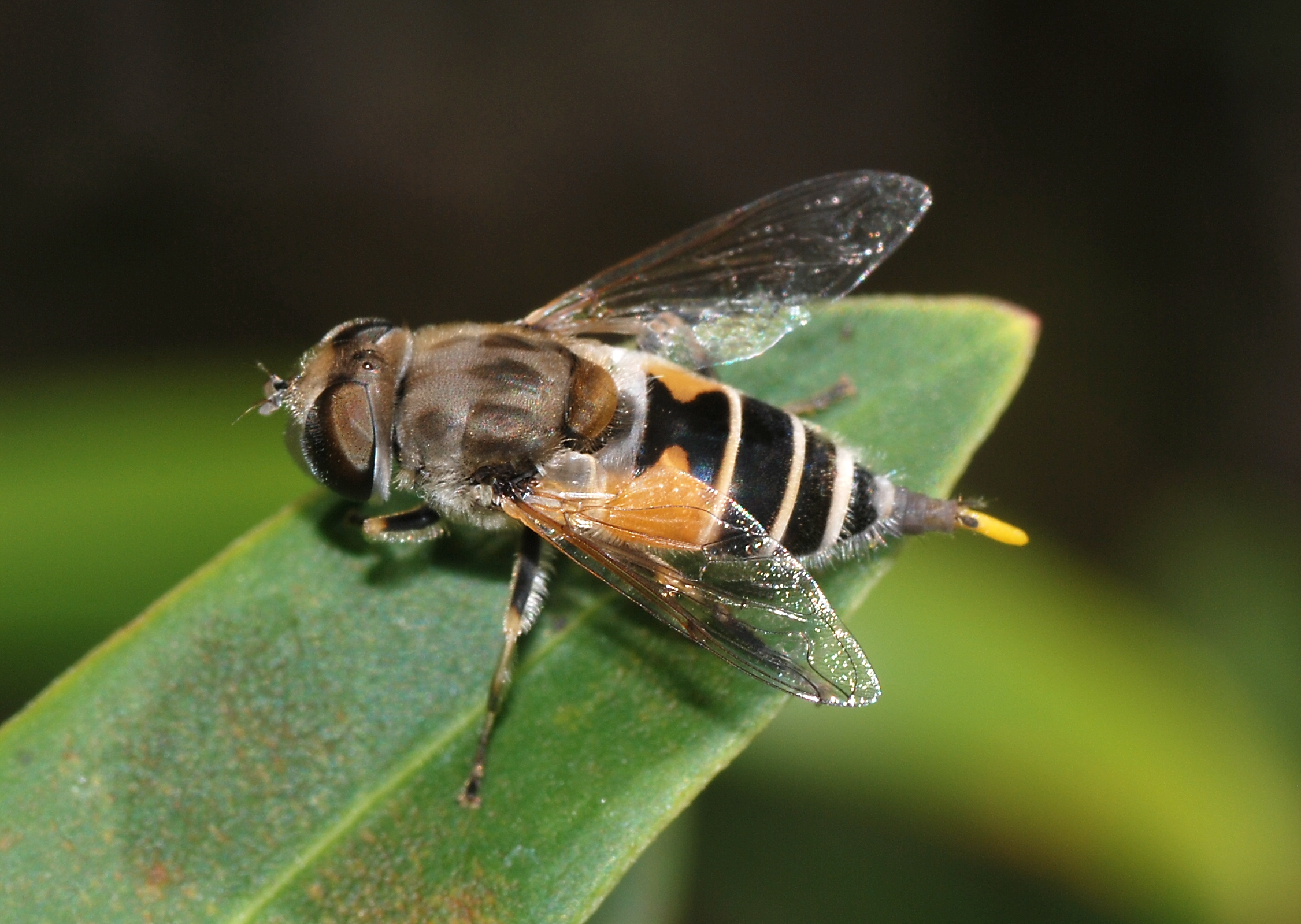 Hoverfly (Eristalis arbustorum) laying an egg. Notice the yellow egg at the tip of the abdomen, at right.